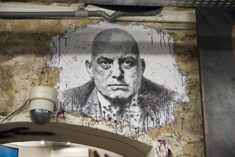 Secrets revealed of the Abode of Chaos.